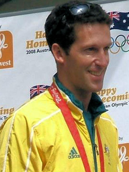 Malcolm Page at the 2008 Olympic homecoming parade in Adelaide